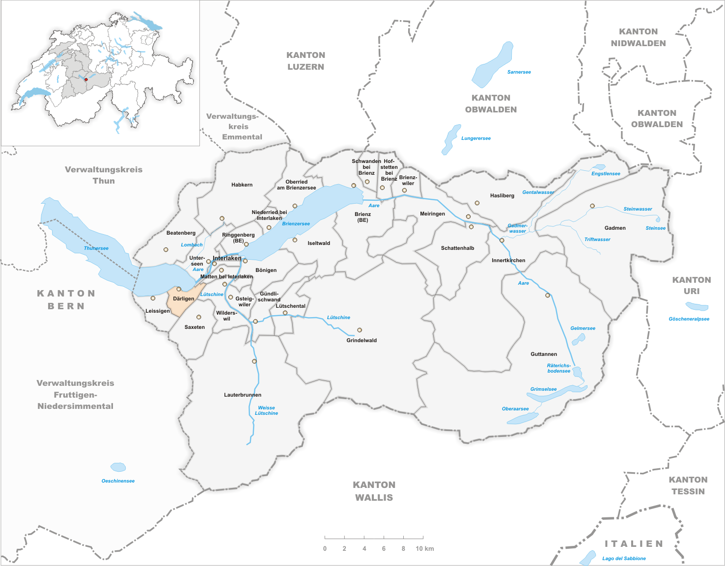 Municipality Därligen